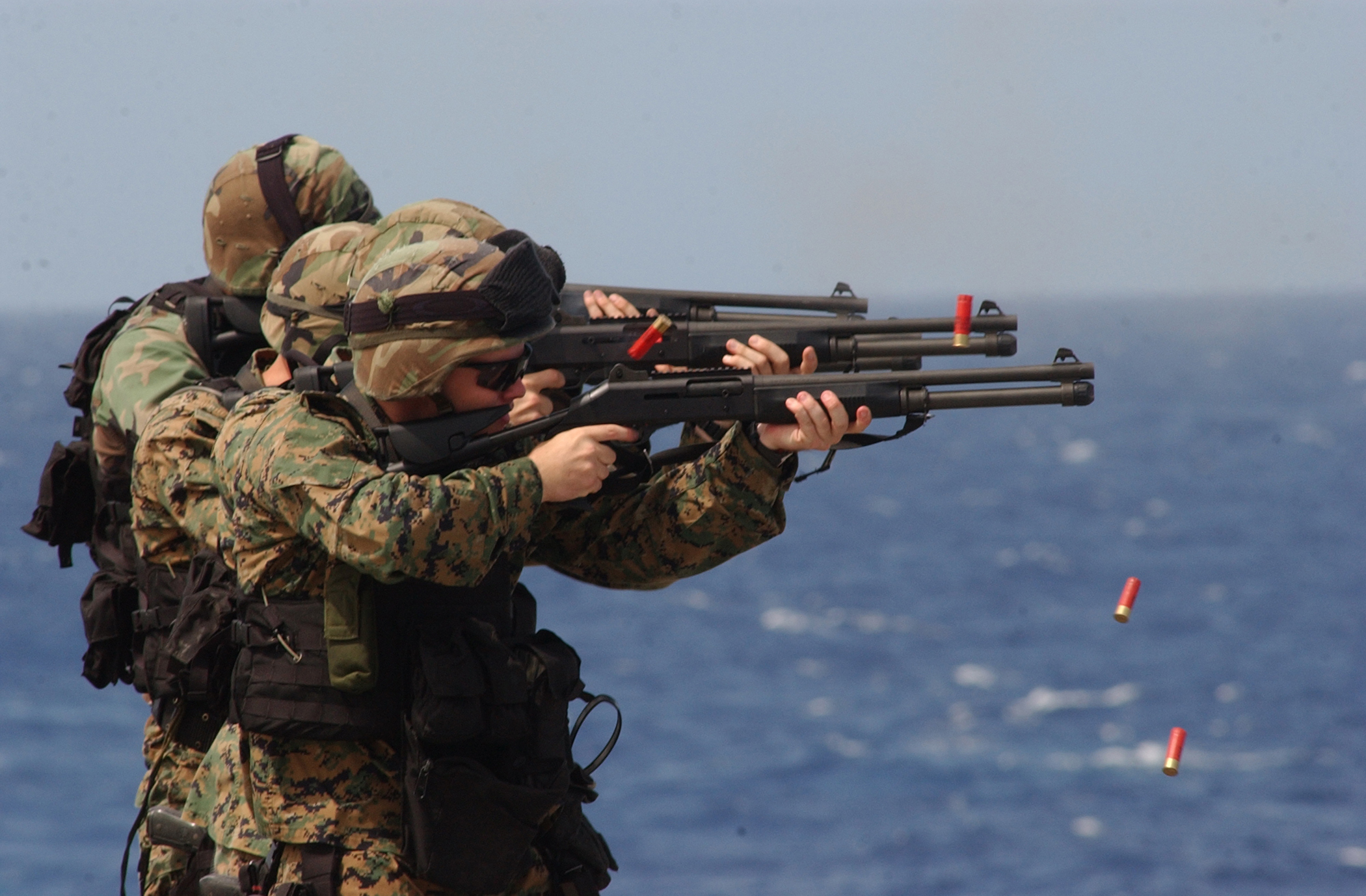 Aboard USS Blue Ridge (LCC 19) Nov. 6, 2003 -- Marines assigned to the 2nd Fleet Anti-Terrorism Support Team (FAST), 7th Platoon, fire shotguns during weapons familiarization training aboard USS Blue Ridge (LCC 19).